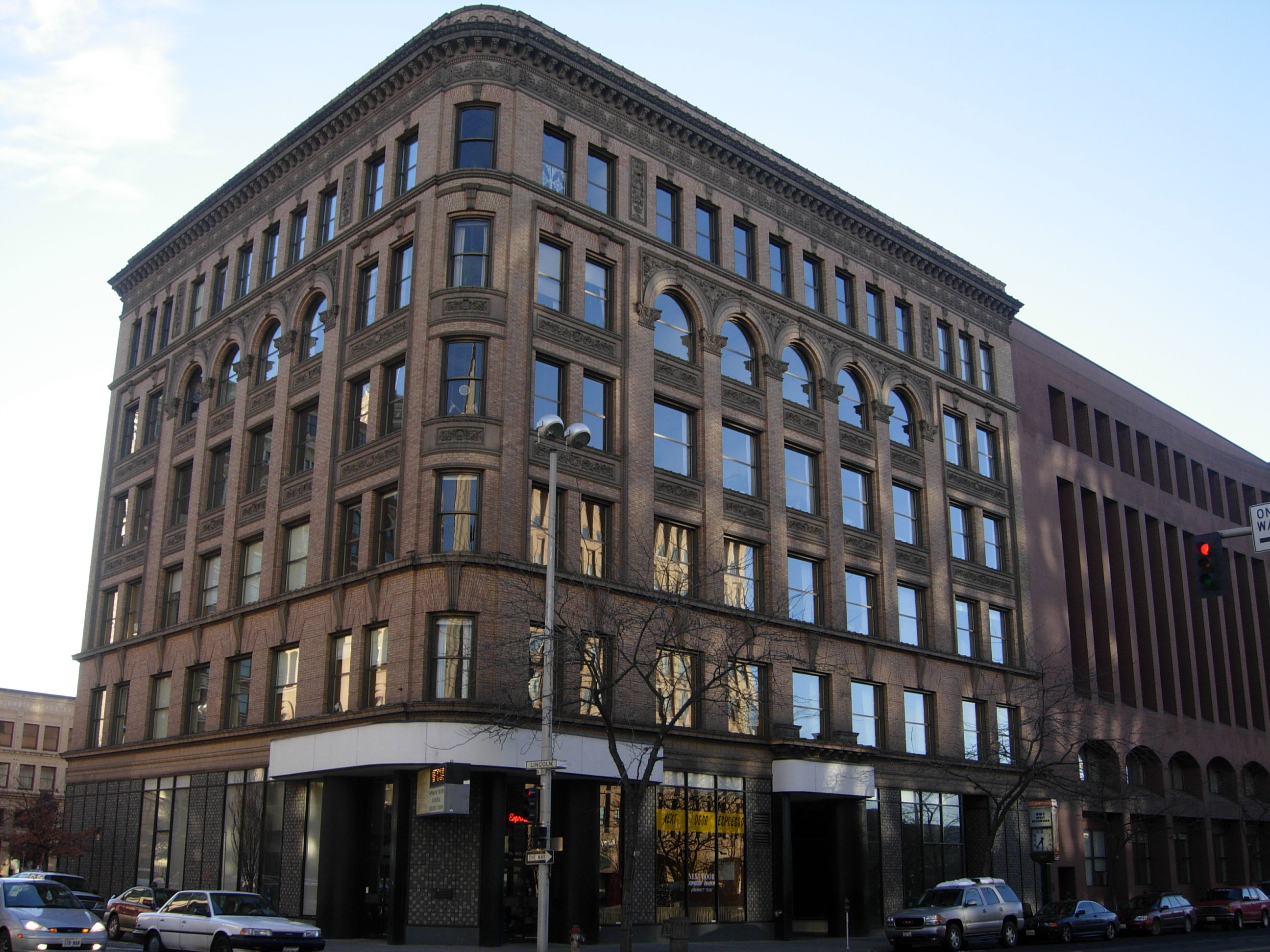 The Empire State Building in Spokane, Washington